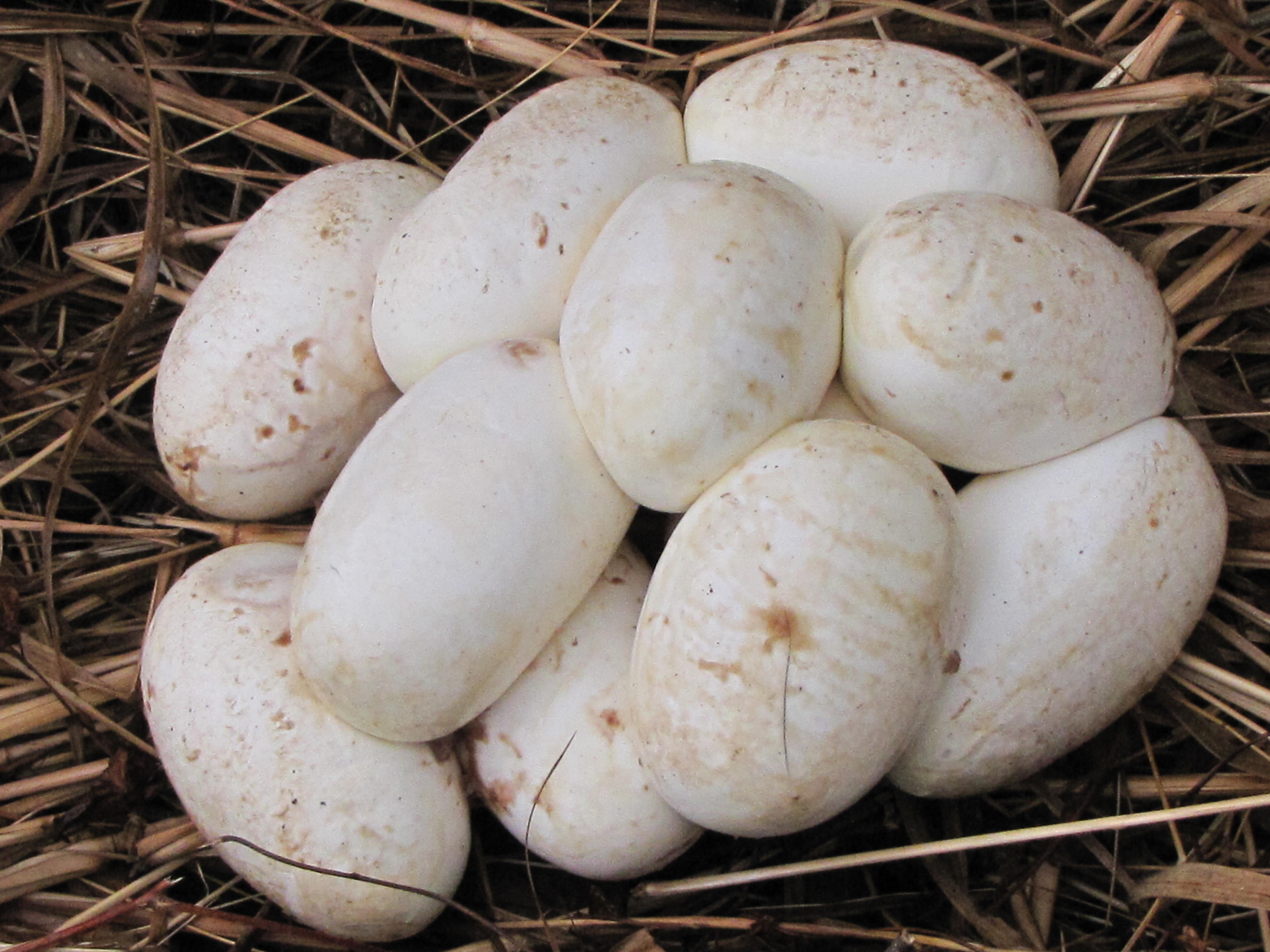 Python bivittatus eggs